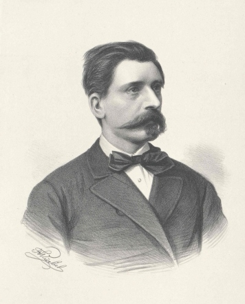 Béni Kállay (1839-1903), Austro-Hungarian minister of finance